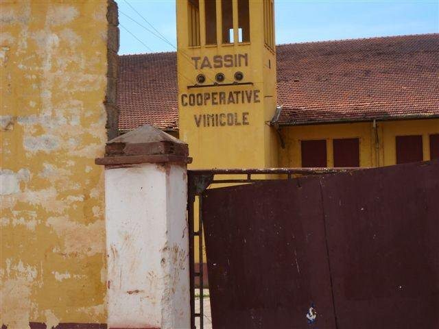 Wine factor now